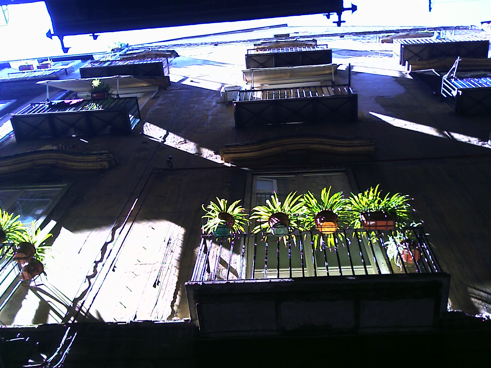 Facade